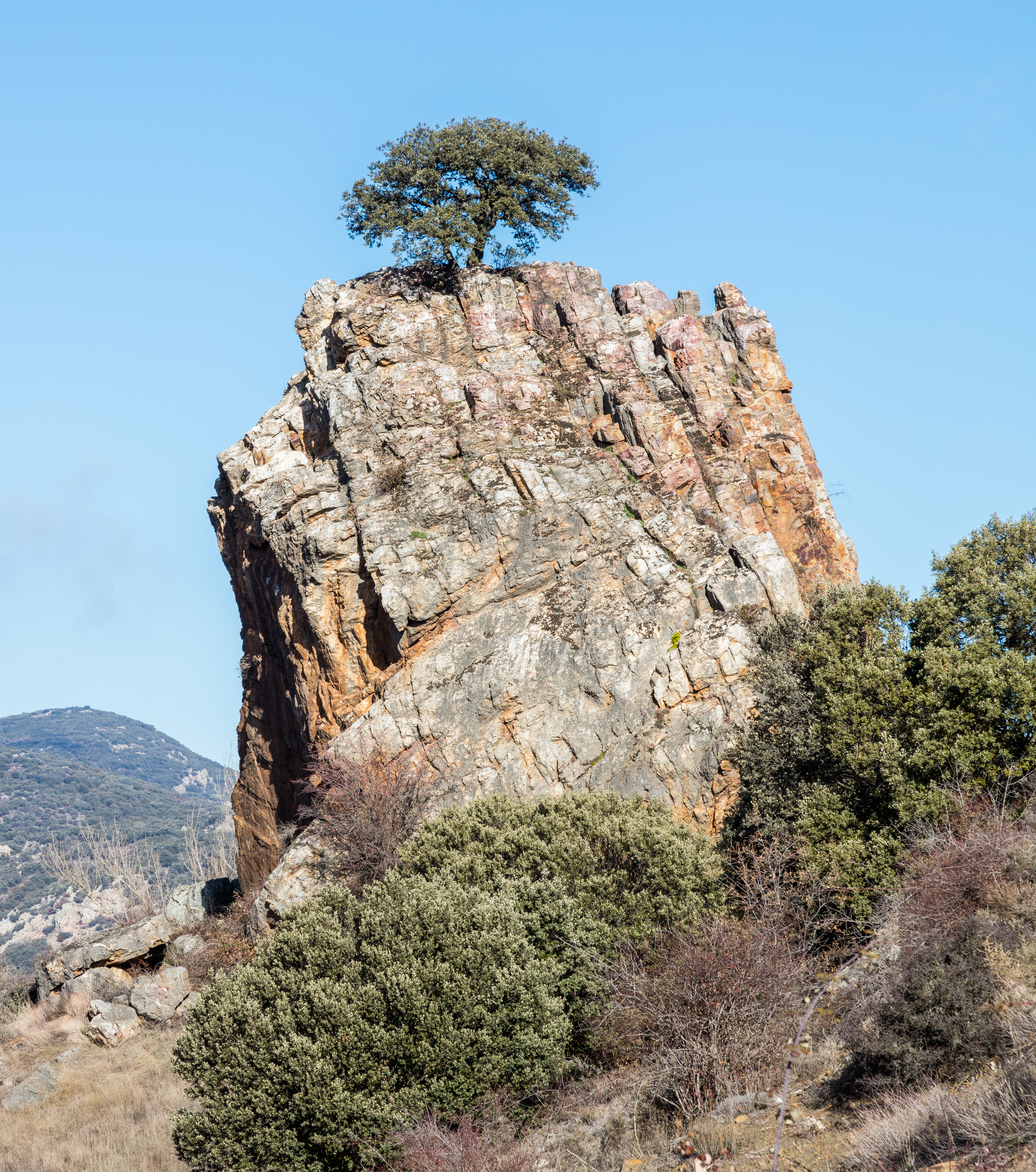 Evergreen oak (Quercus ilex), Piedra del Tormo, Fombuena, Zaragoza, Spain